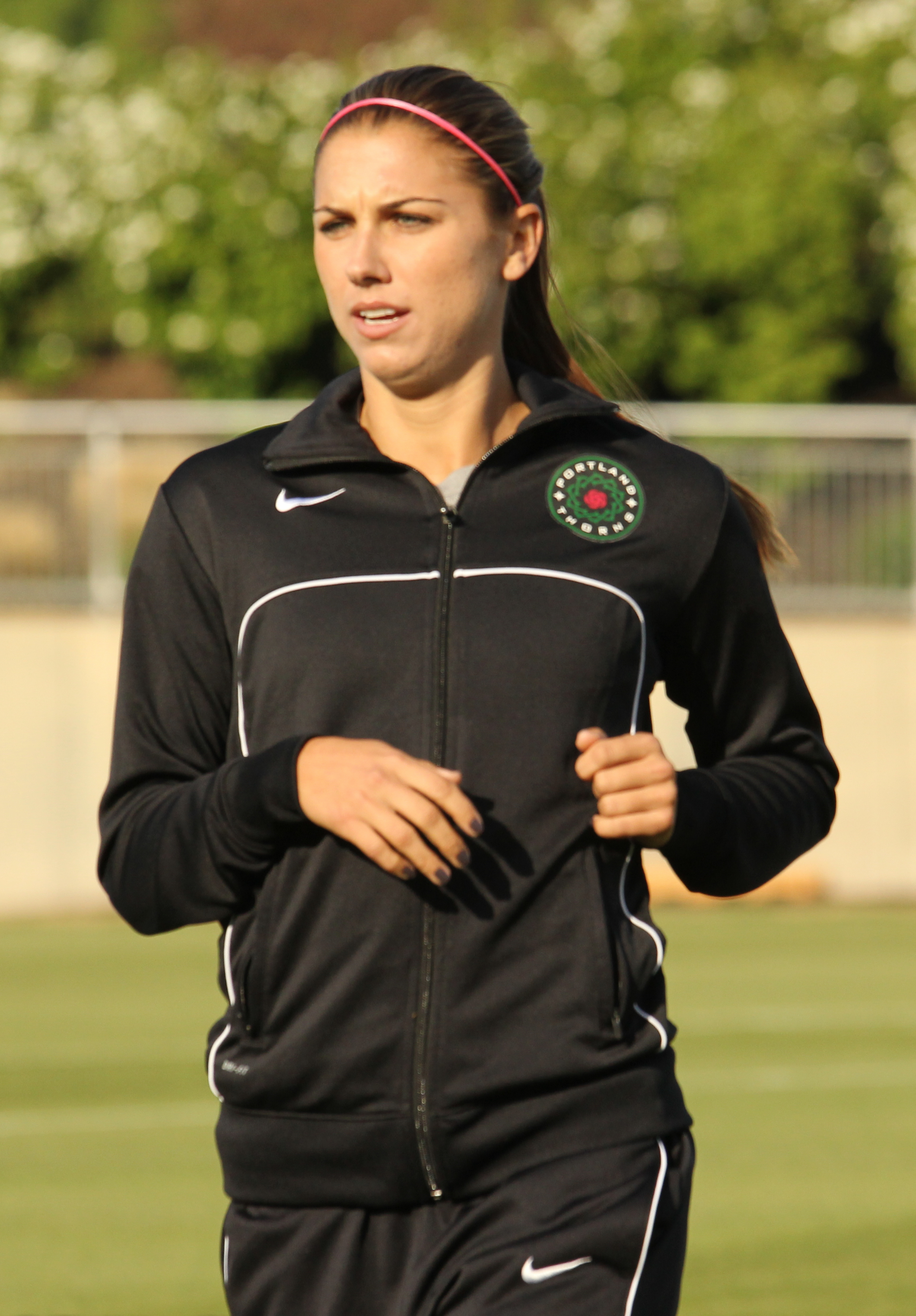 2013-05-04 Spirit - Thorns